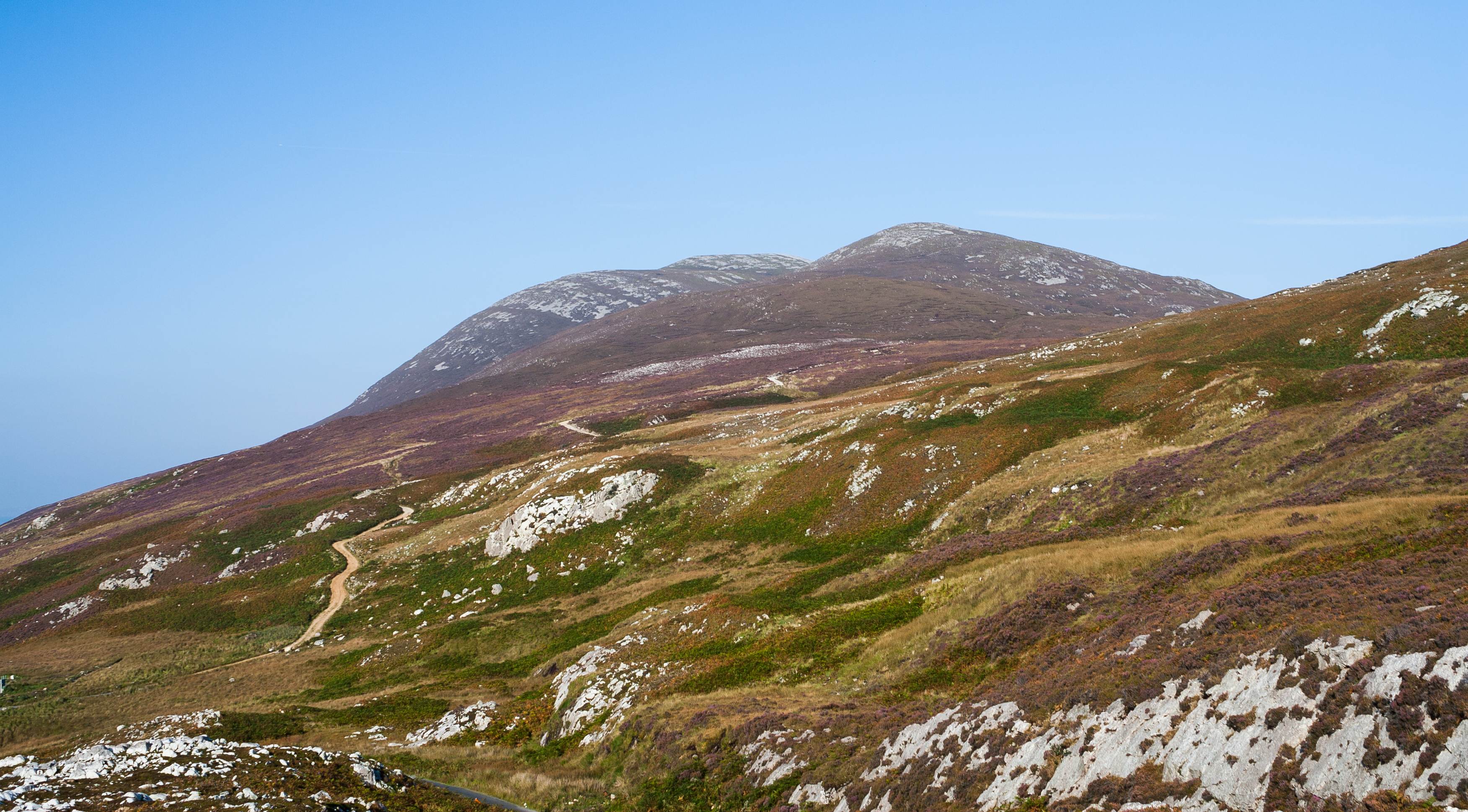 Raghtin More, Inishowen, County Donegal, Ireland Crockmain (460 m) and Raghtin More (502 m), as seen from Mamore Gap.